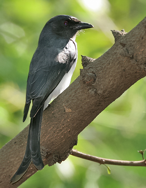 White-bellied Drongo Dicrurus caerulescens at Sindhrot in Vadodara District of Gujarat, India.